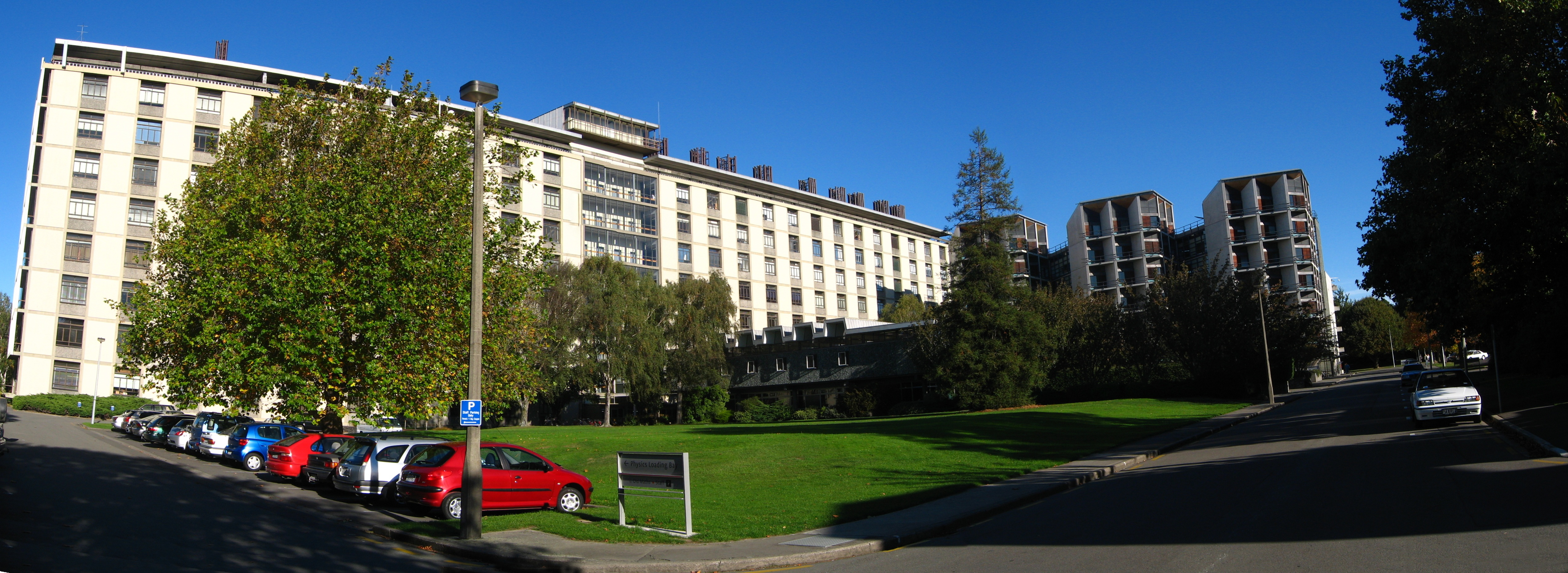 Rutherford Building, Physical Sciences Library, and the Erskine Building, University of Canterbury, Christchurch.